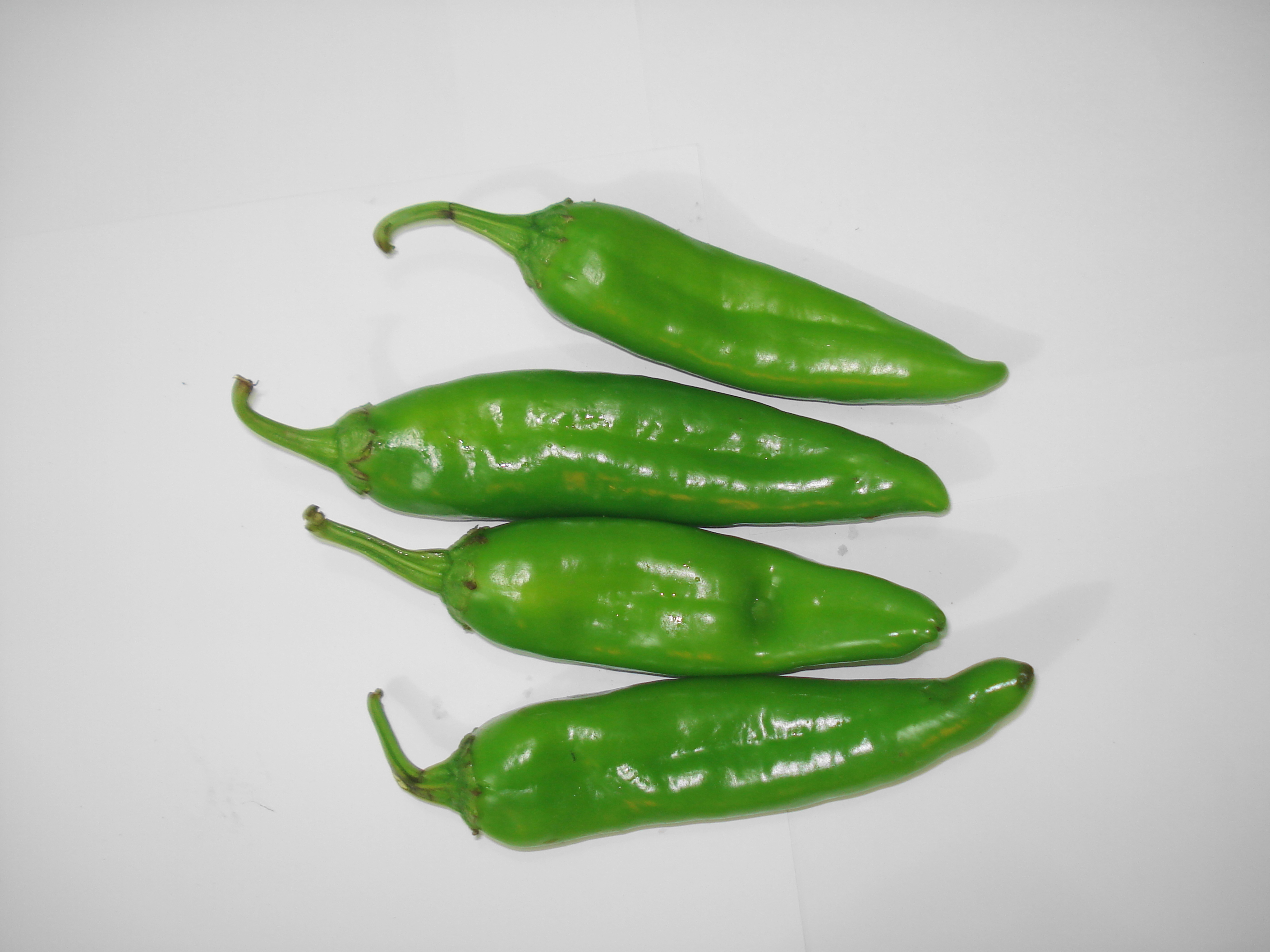 Kashmiri hari Mirch